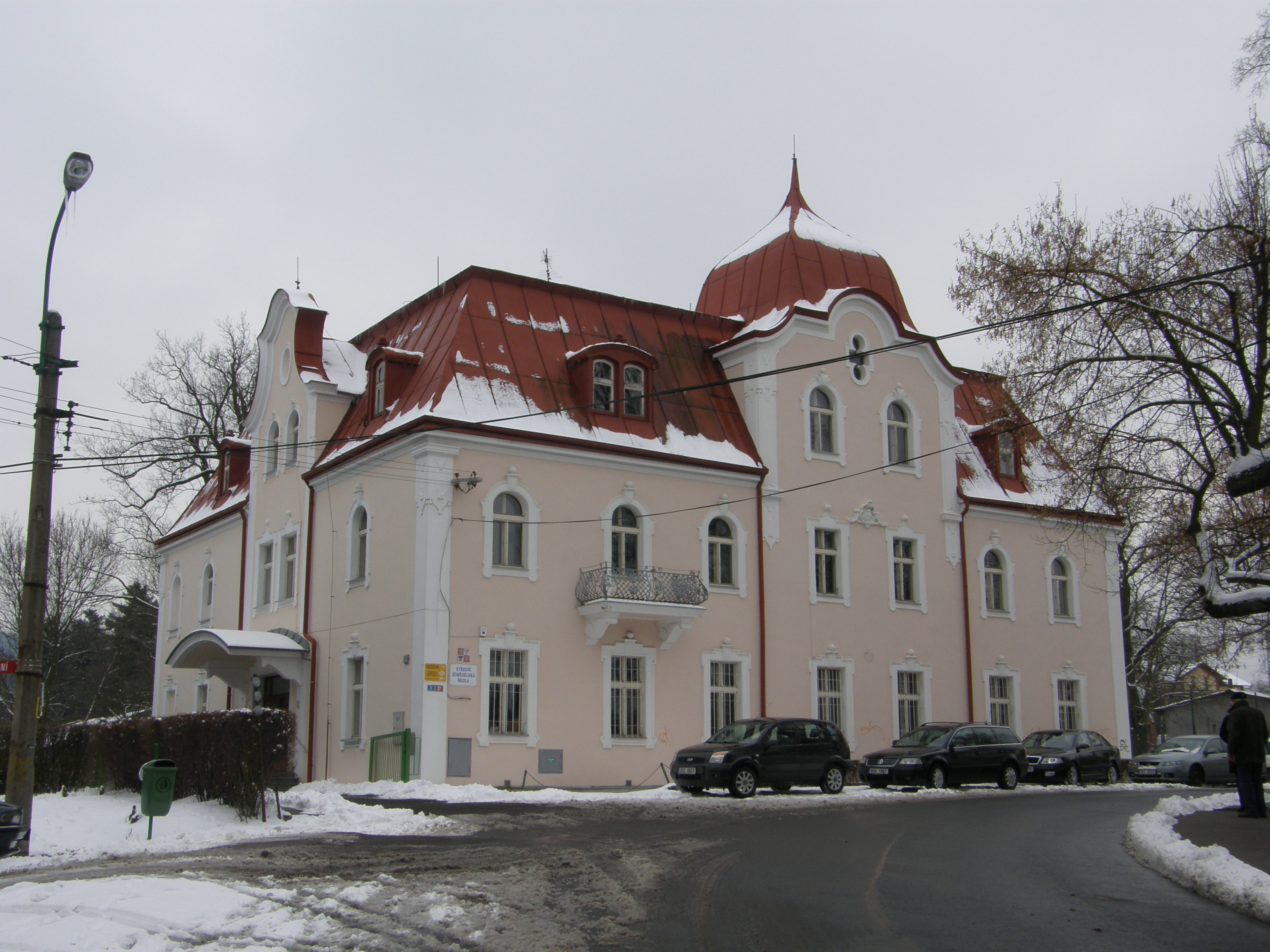 Old castle in Dalovice (Karlovy Vary district)